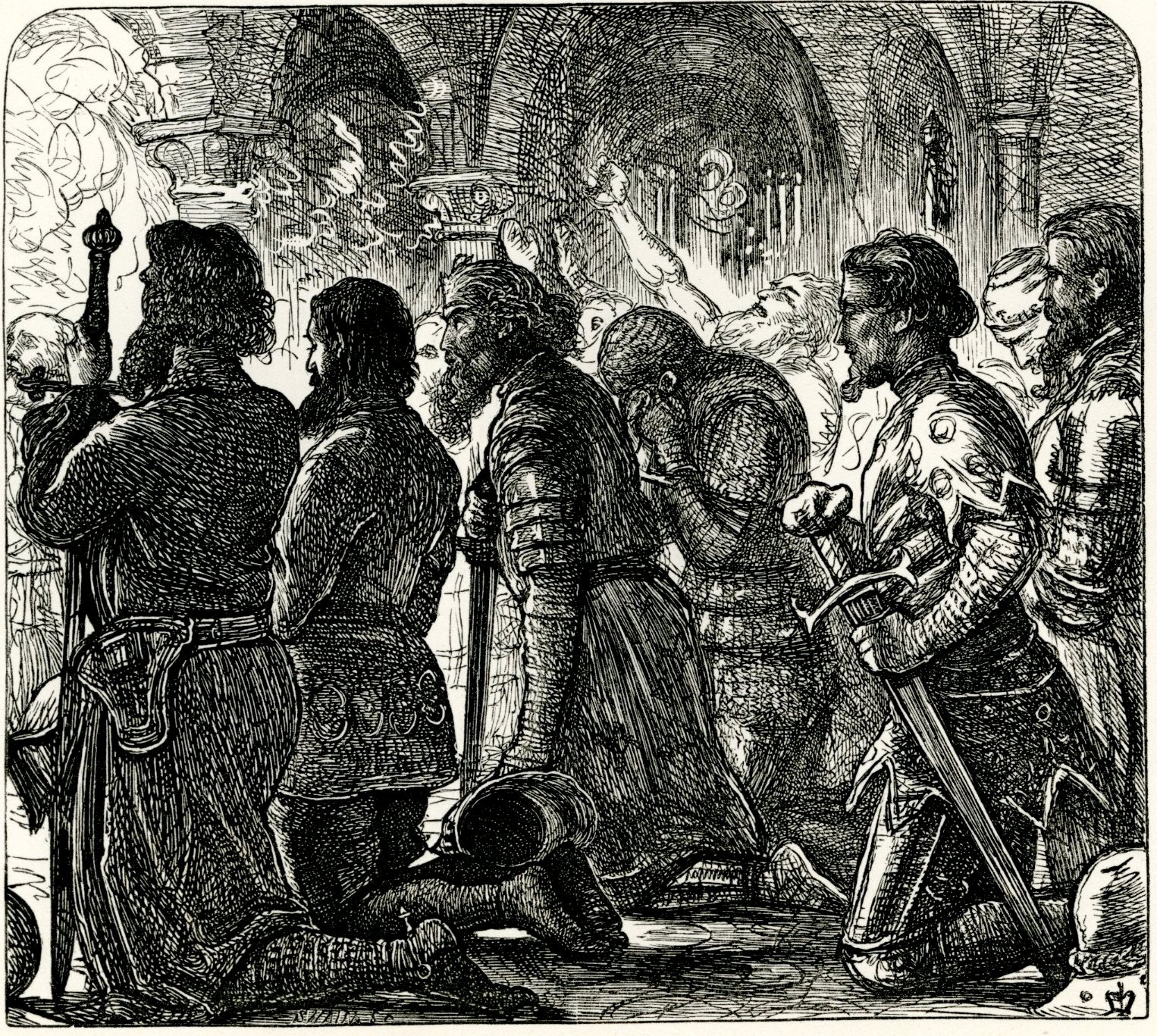 Illustration of praying knights of the Blois-faction before the The Combat of the Thirty, by J. E. Millais, from the book Ballads and Songs of Brittany by Tom Taylor, a translation of Barzaz Breiz